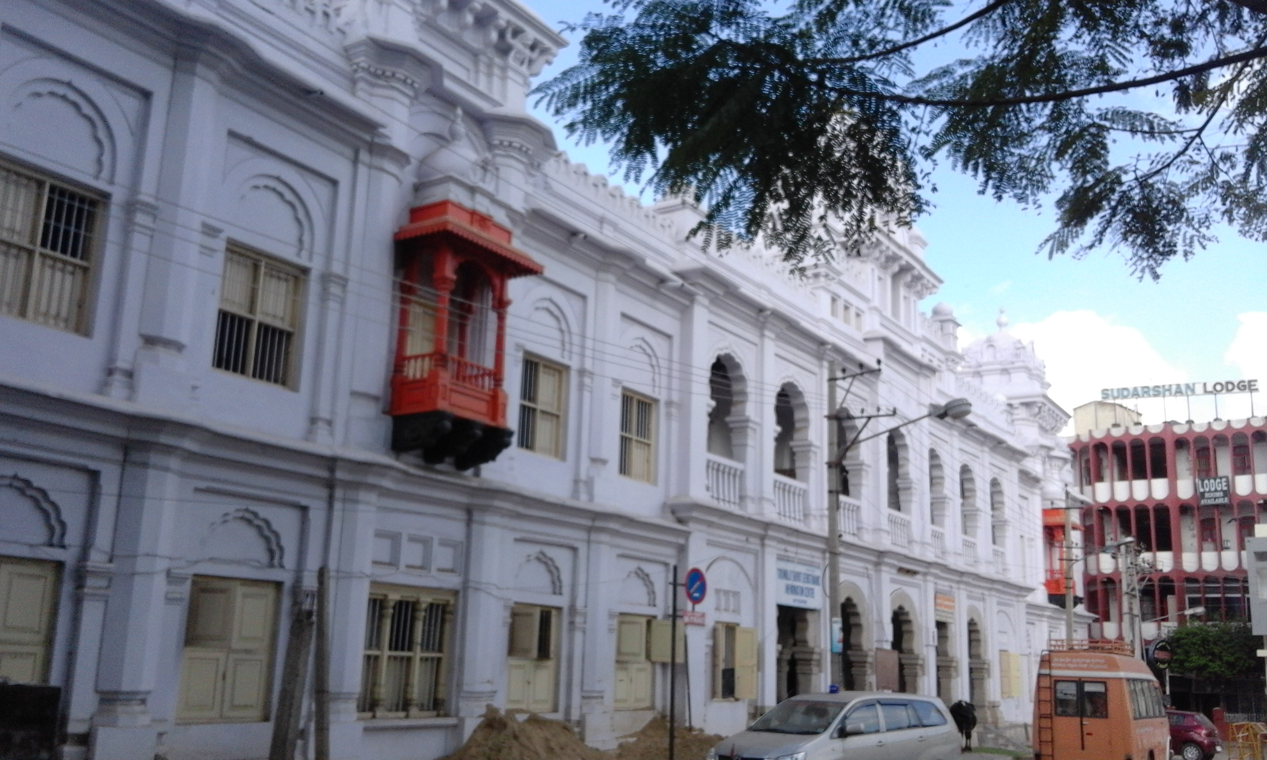 Temple Office near Jagmohan Palace, Mysore.